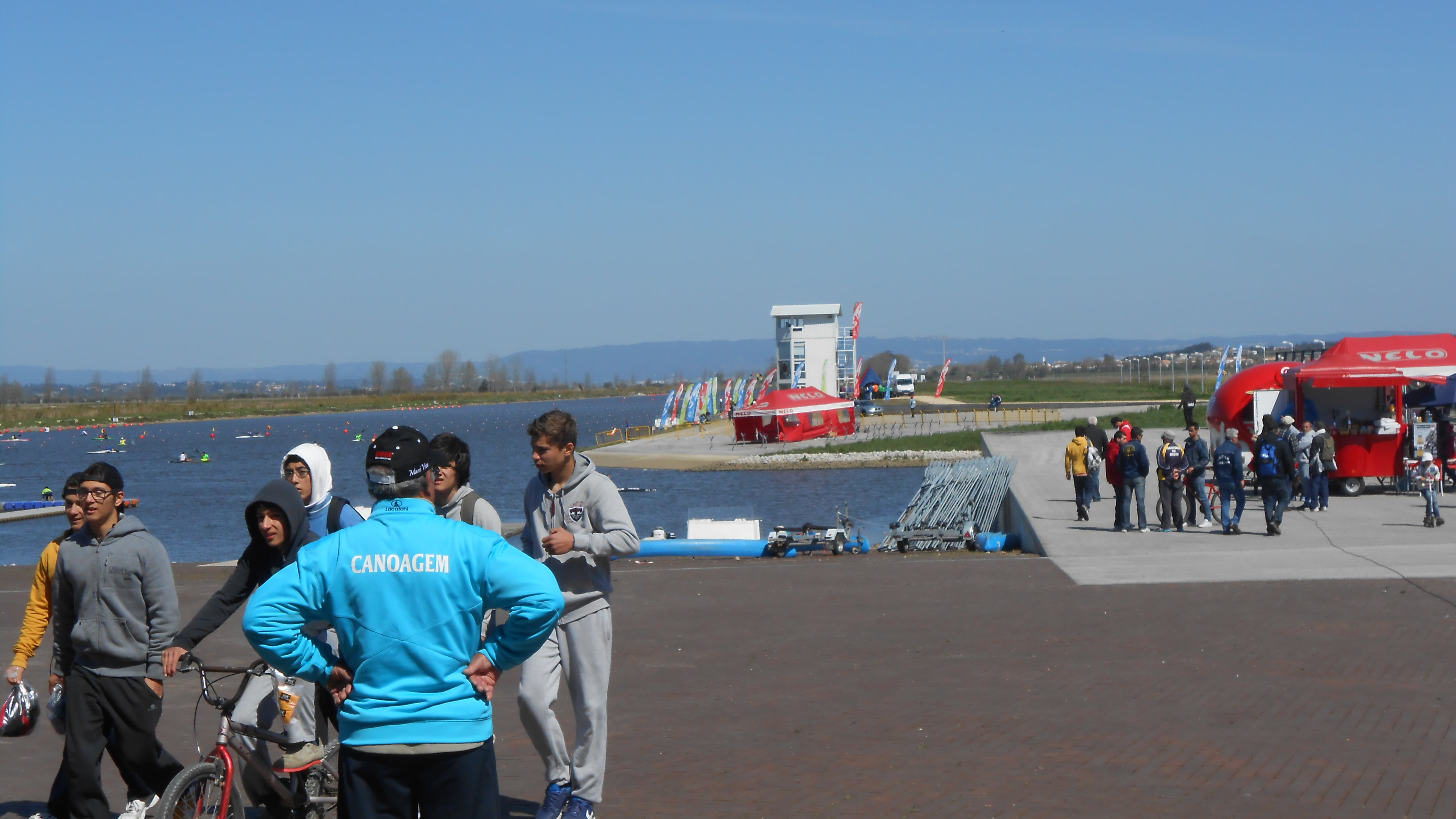 Inside the Centro Náutico, part of the Centro de Alto Rendimento (CAR) in Montemor-o-Velho in the Coimbra district